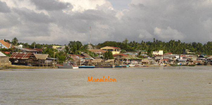 Picture captured while on the boat going to Baybay beach near the town.